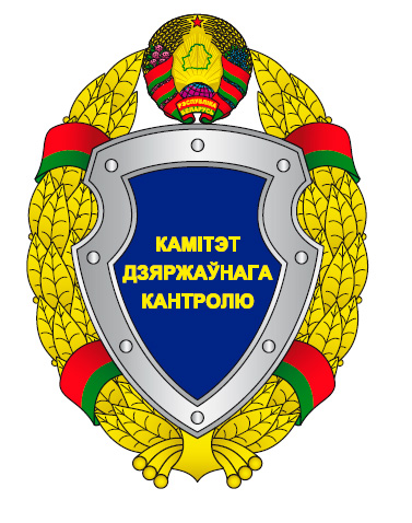 Symbols the State Control Committee of the Belarus